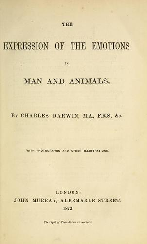 Title page from "The Expression of the Emotions in Man and Animals". Text: "The Expression of the Emotions in Man and Animals. By Charles Darwin, M.A., F.R.S., &c. with photographic and other illustrations. London: John Murray, Albemarle Street. 1872. The right of Translation is reserved."